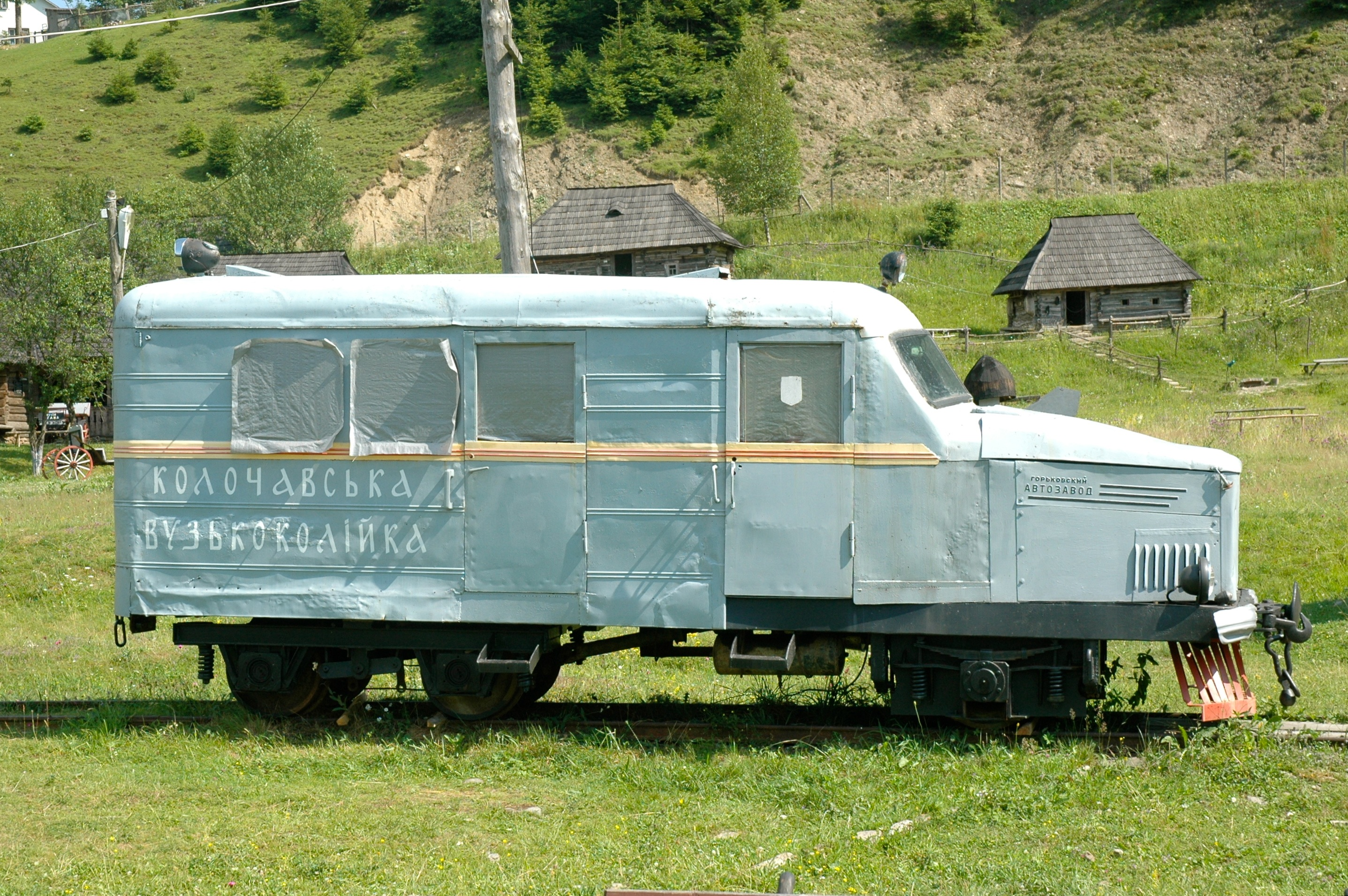 SMD-1 Soviet ambulance draisine of the former Kolochava Narrow Gauge Railway